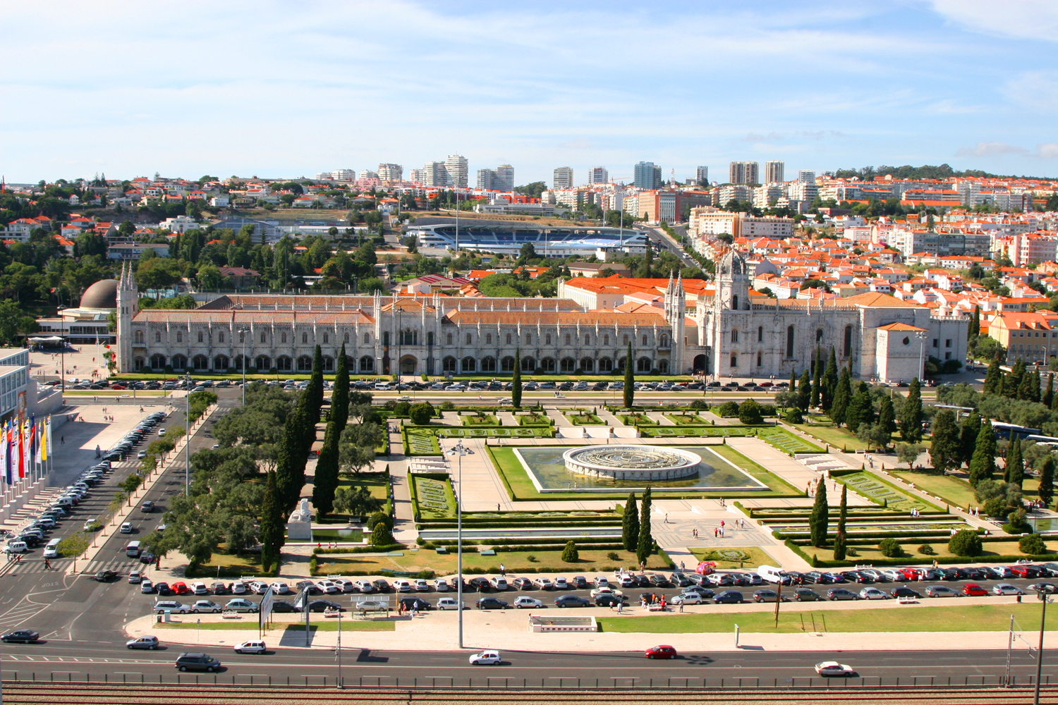 View of Jerónimos Monastery and surrounding area in the Belém district, Lisbon